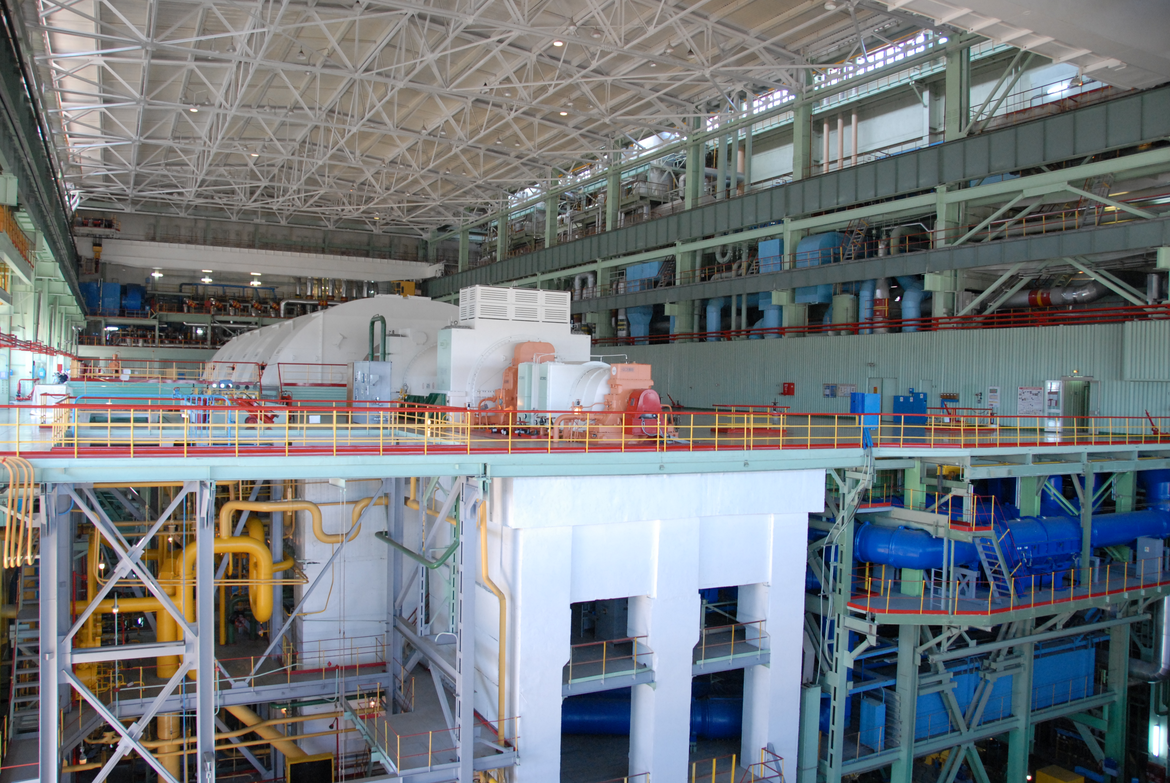 Turbine island of a steam turbine of the Balakovo Nuclear Power Plant